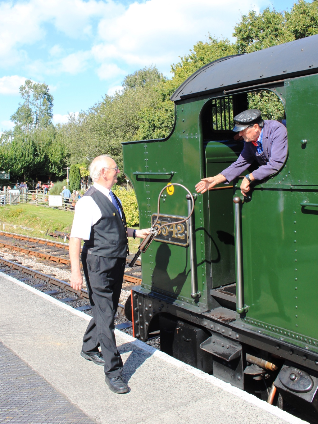 The signalman hands the driver of 5542 the token that allows him to proceed down the South Devon Railway from Totnes.